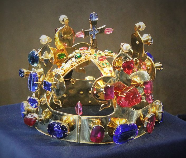 Copy of the Crown of St. Wenceslas in the Prague Castle